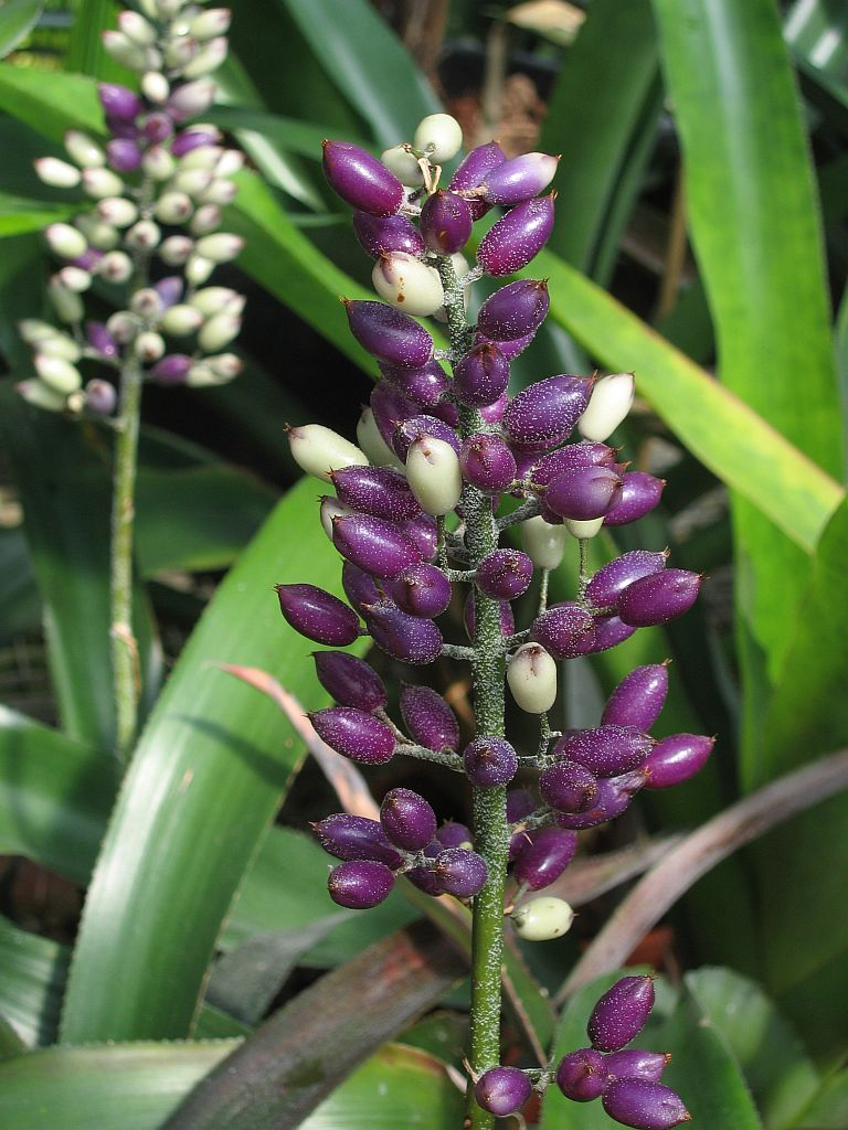 Aechmea lueddemanniana, in cultivation at the Botanical Garden of Heidelberg, Germany.